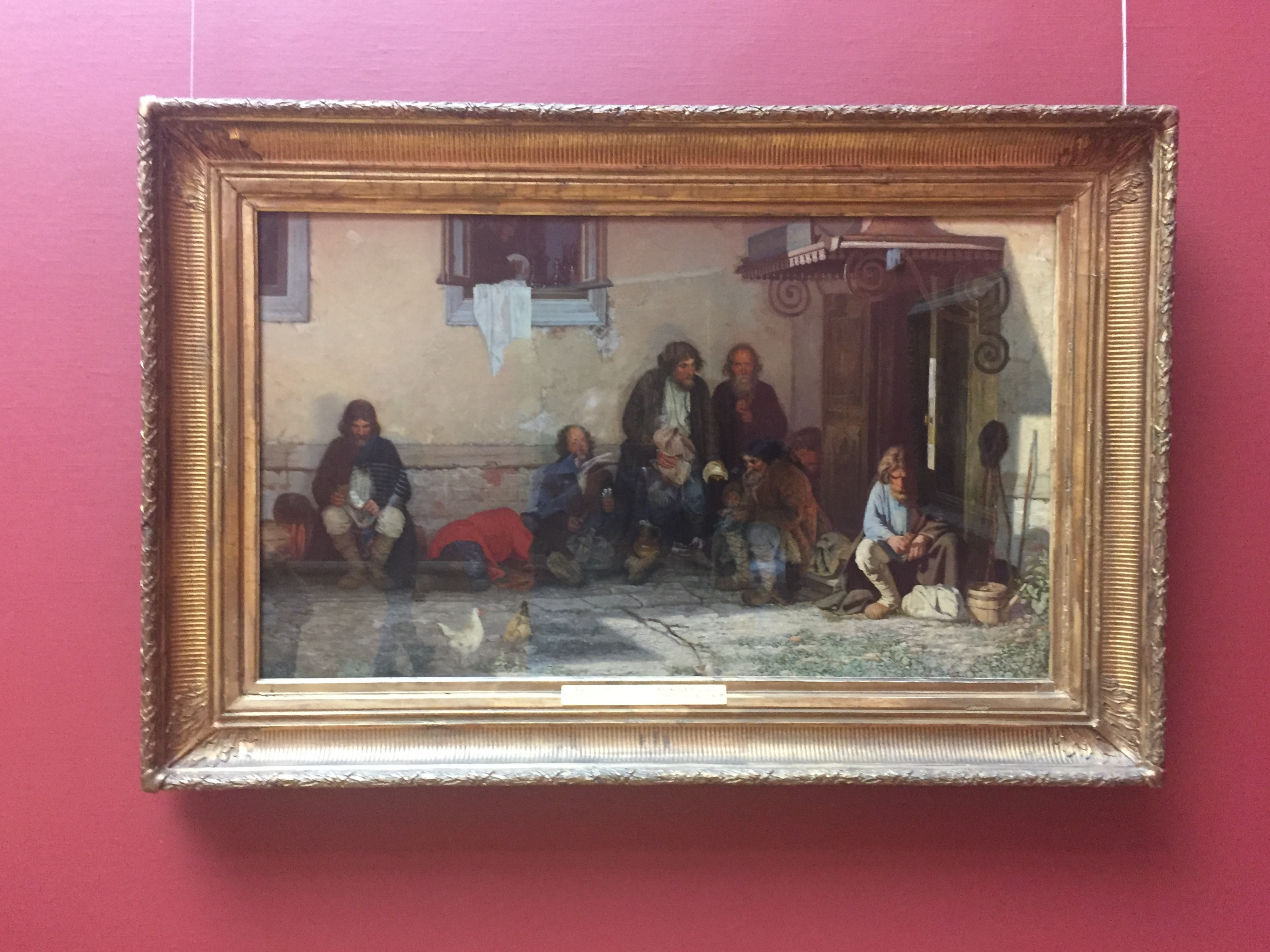 The Zemstvo dines (painting by Grigoriy Myasoyedov, 1872) in the State Tretyakov Gallery